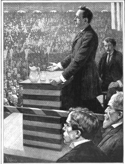 Artist's conception of former Massachusetts Governor William E. Russell addressing the 1896 Democratic National Convention; he immediately preceded William Jennings Bryan's Cross of Gold speech